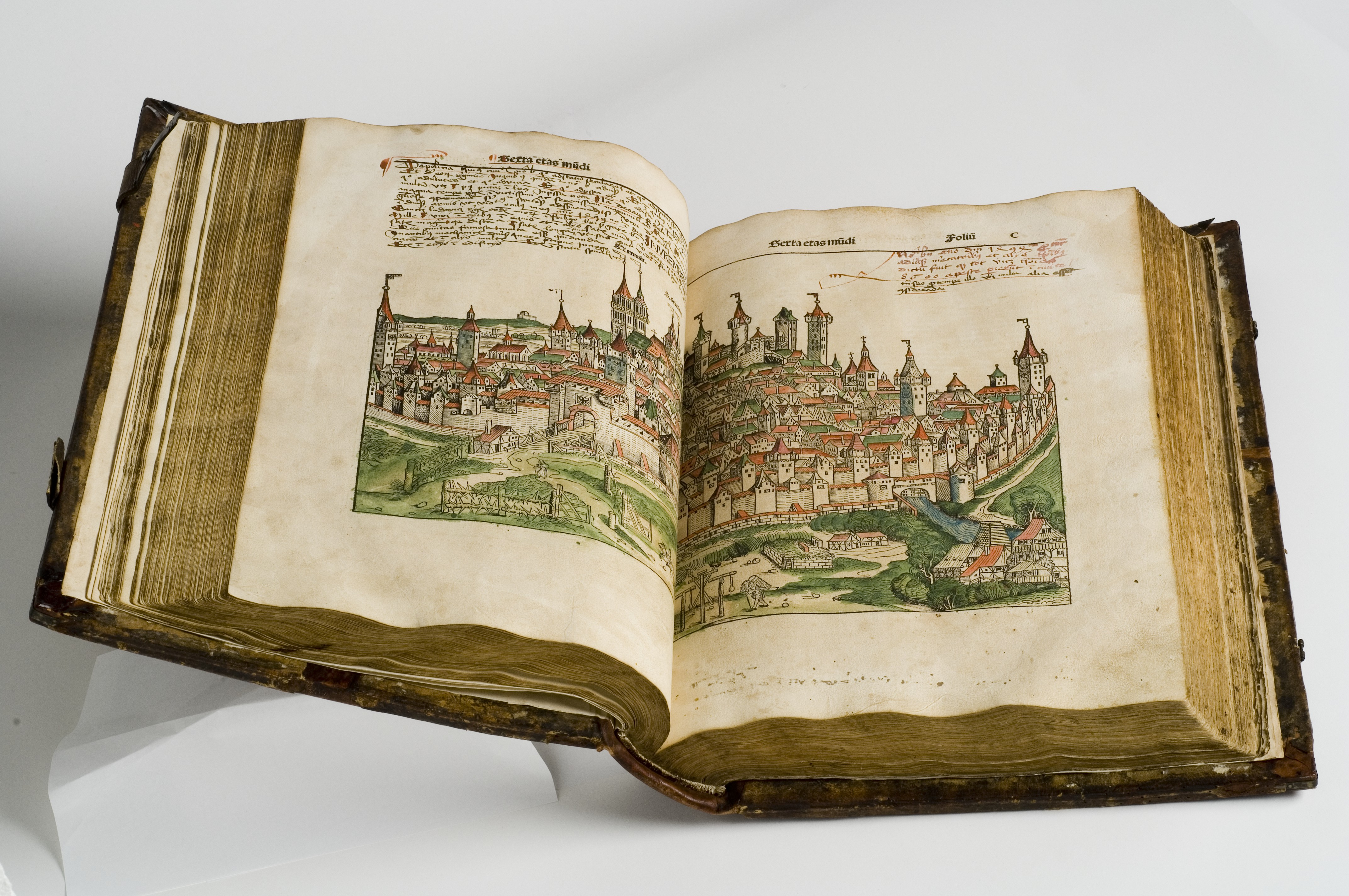 Book open on page depicting cityscape of Nuremberg Rare Books